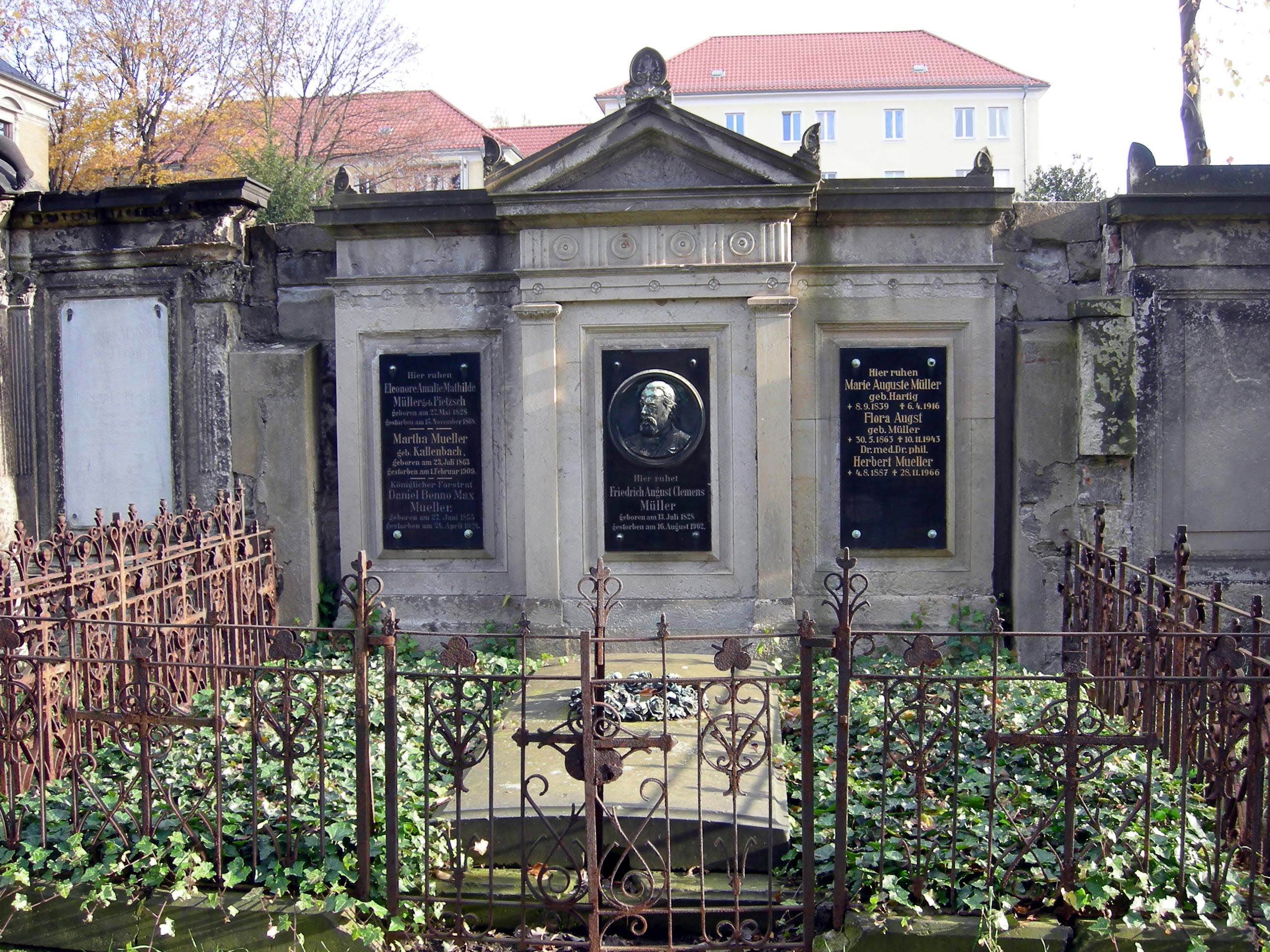 Grave of Clemens Mueller (1828-1902) & family